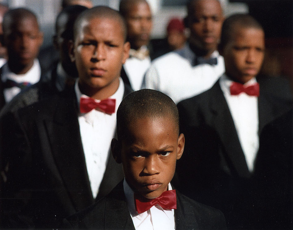 Members of the Nation of Islam perform a routine at Market and Powell Streets in San Francisco, California, 1994. Photo by Nancy Wong